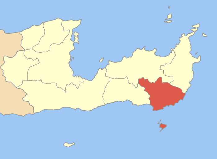 Locator map of Lefki municipality (Δήμος Λεύκης) in Lasithi prefecture (Νομός Λασιθίου) in Greece.